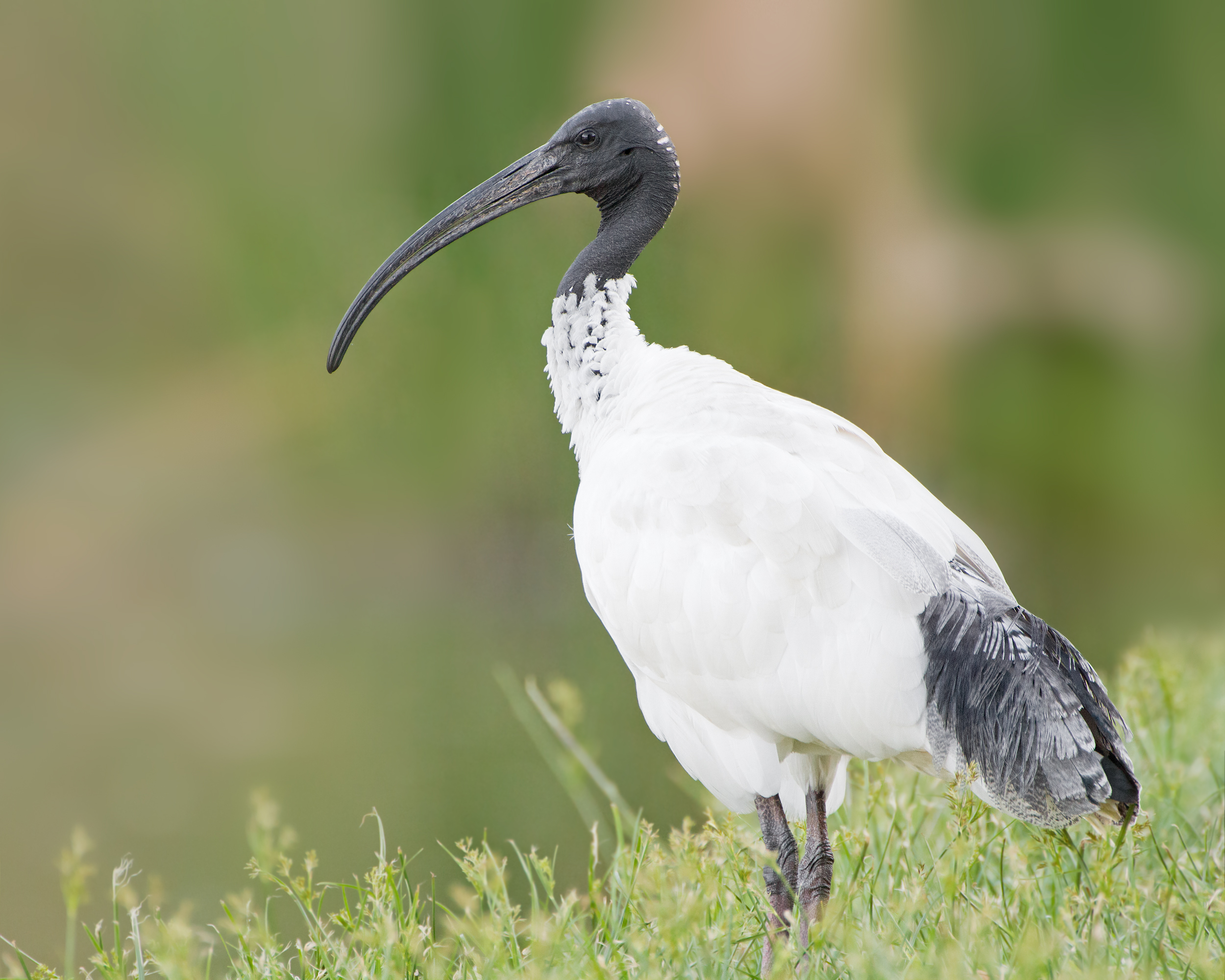 Australian White Ibis (Threskiornis molucca), Perth, Western Australia, Australia